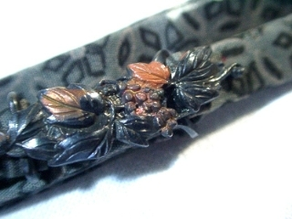 Vintage obidome with unique leaf motif.